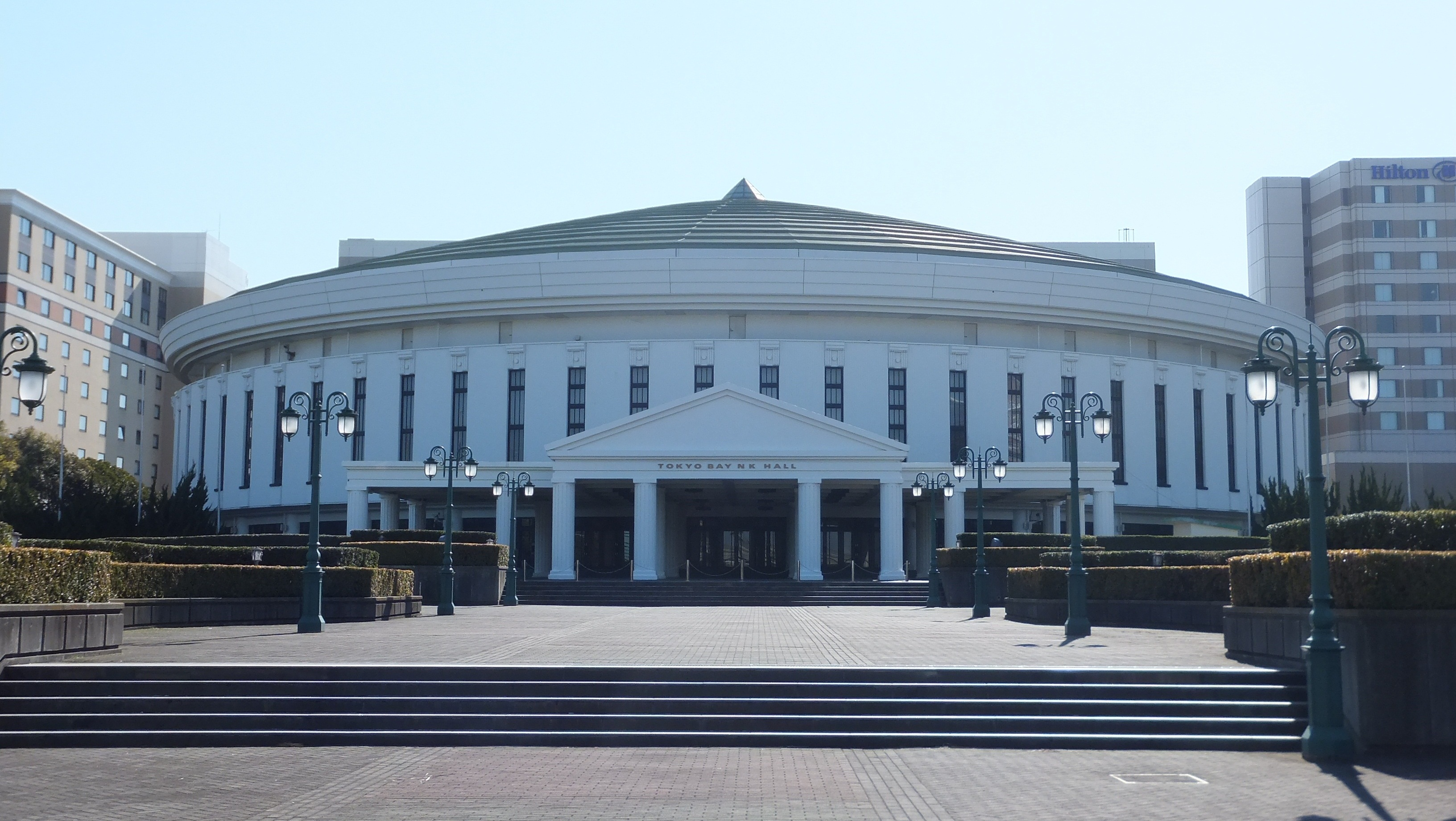 'Tokyo Bay NK Hall' is a concert hall located in Urayasu, Chiba prefecture, Japan.